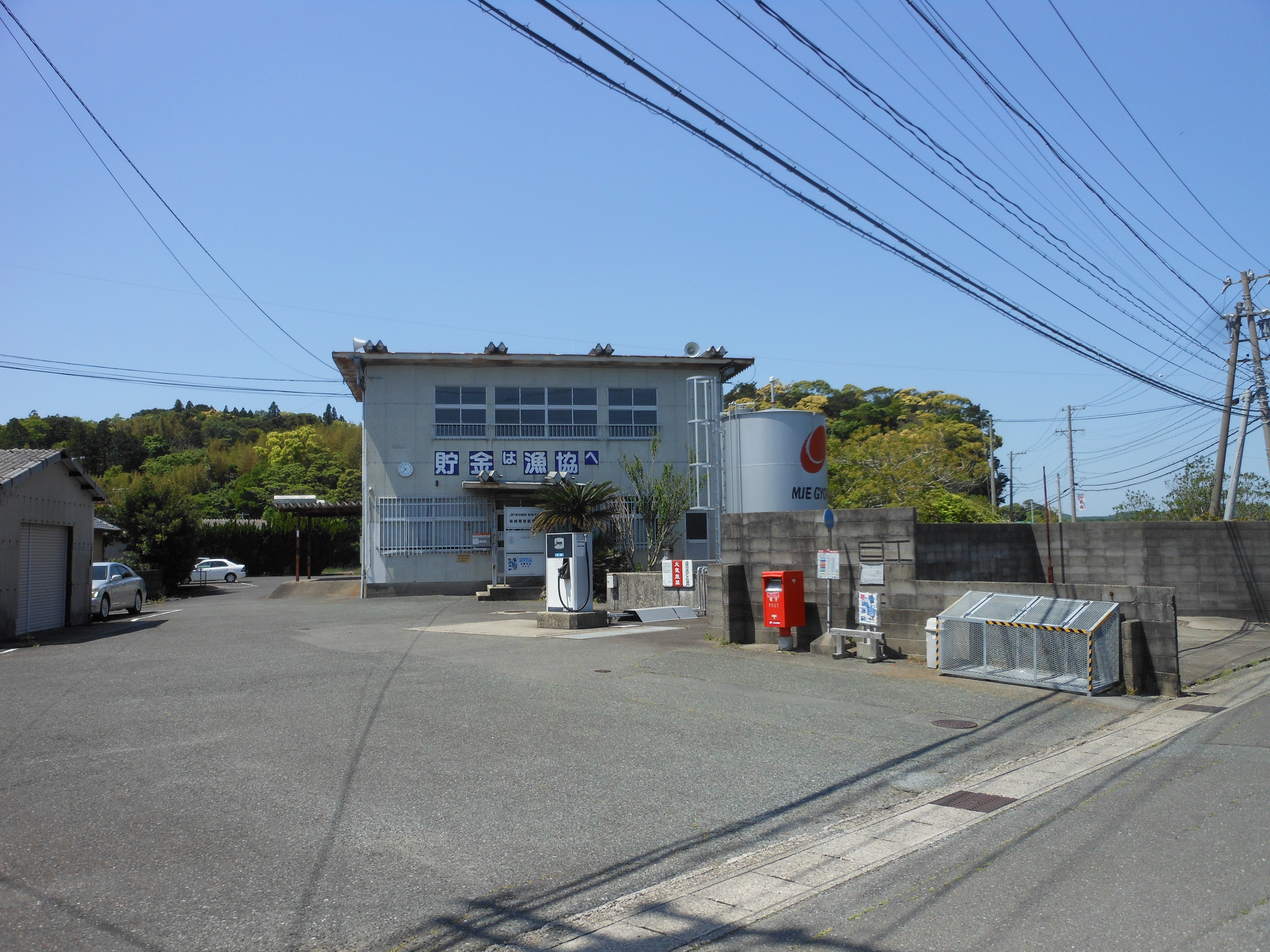 This is Sakazaki post office in Shima, Mie, Japan. It was the office of Toba-Isobe Fisheries Cooperatives Sakazaki branch.